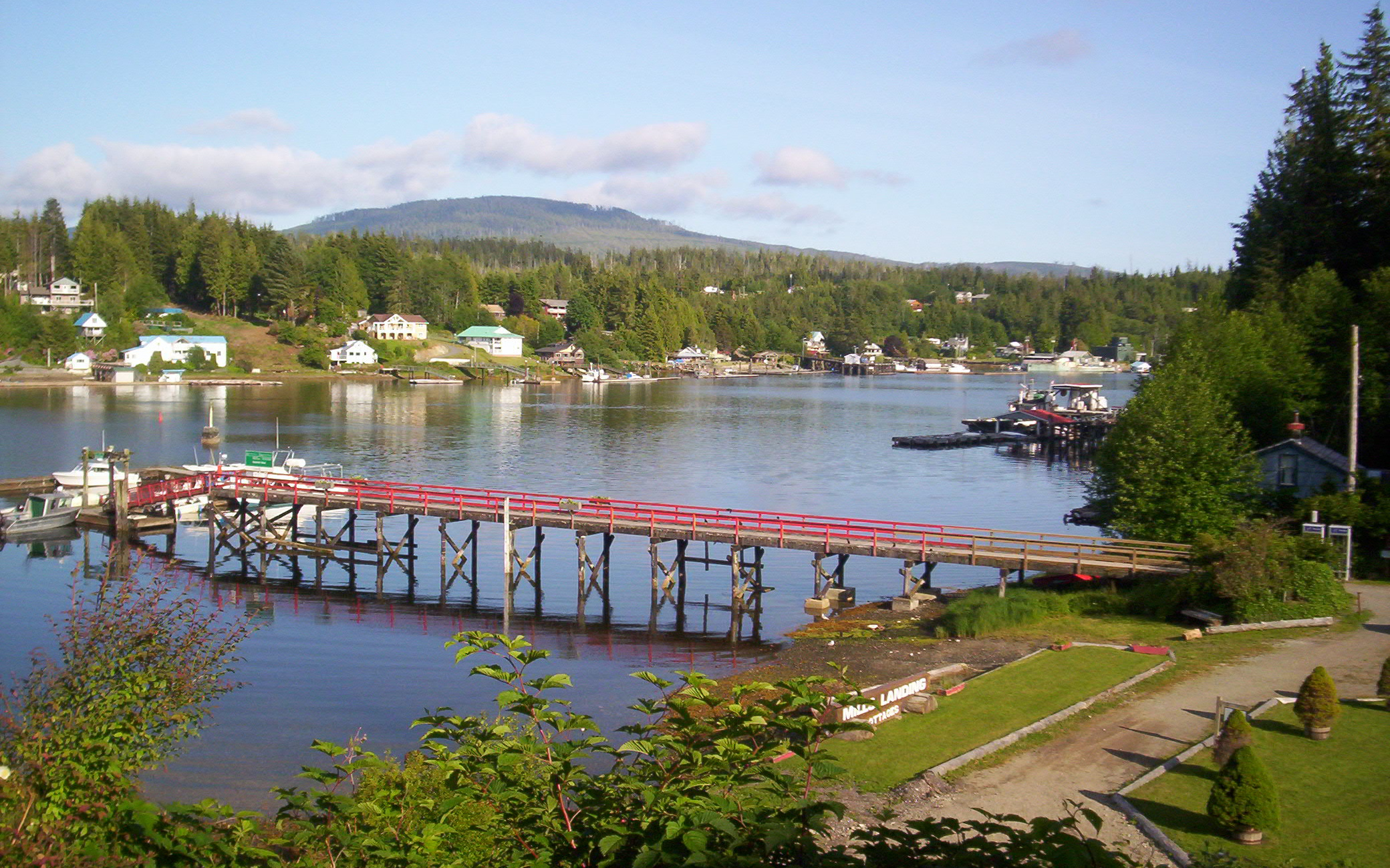 Bamfield, British Columbia